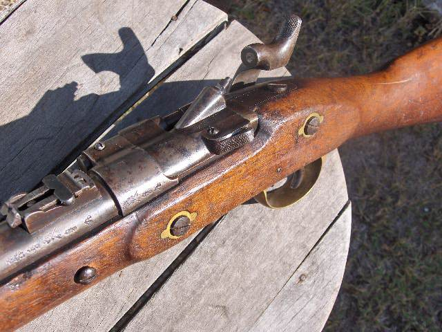 Close position of Snider-Enfield MKIII Carbine's breech.